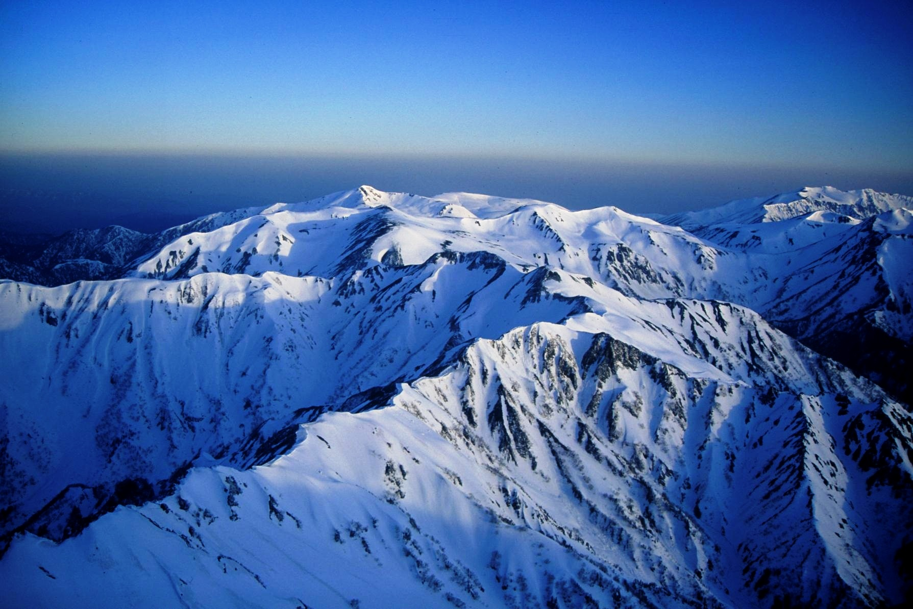 Mount_Kurobegoro_from Mount Yari